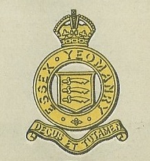 Cap badge as worn at the outbreak of World War II